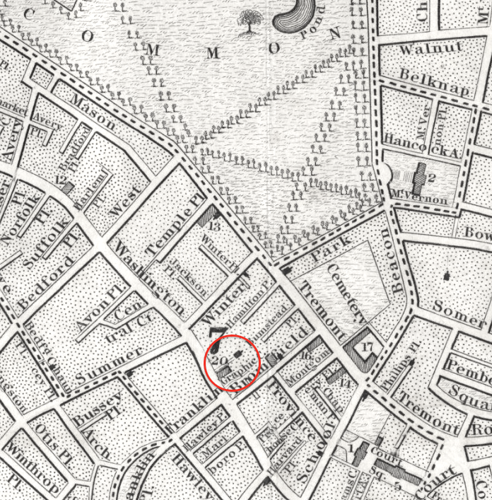 Detail of 1844 map of Boston by Boynton, showing vicinity of Chinese Museum (located in the Marlboro Chapel behind the Marlboro Hotel, Washington Street). Published by Samuel N. Dickinson